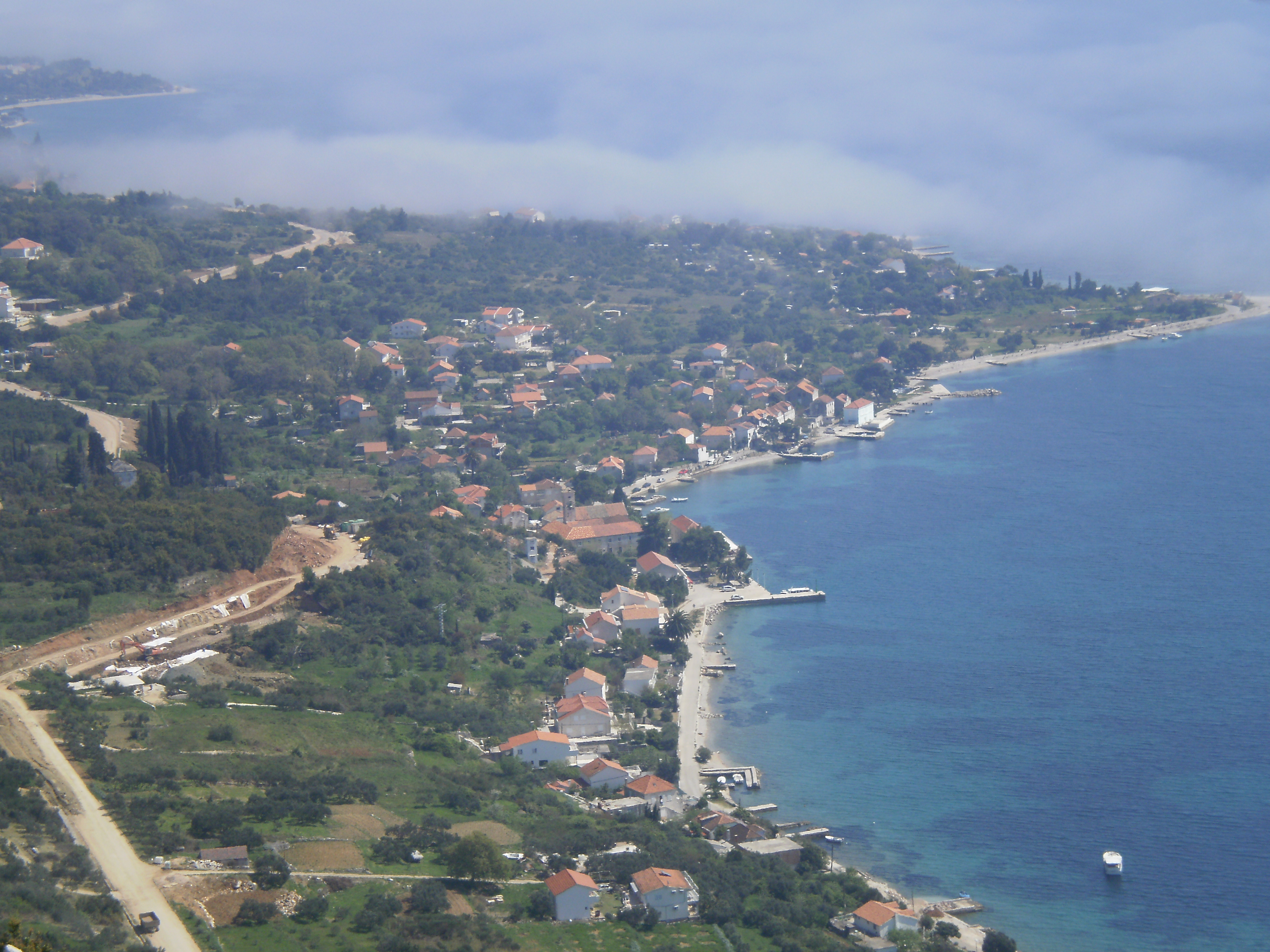 Panorama photo of Viganj